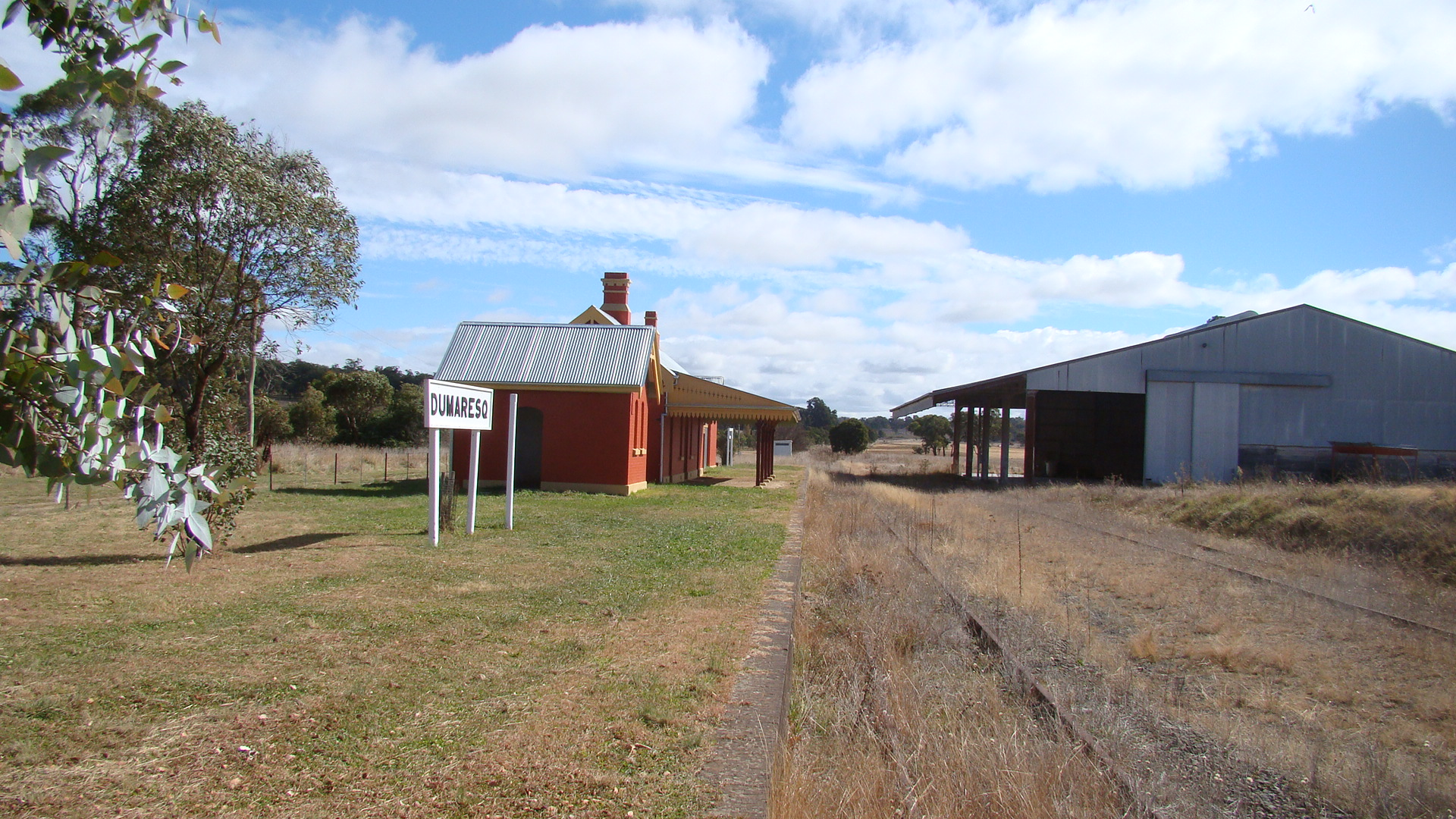 Dumaresq railway station, looking NW (down) with Incitec depot